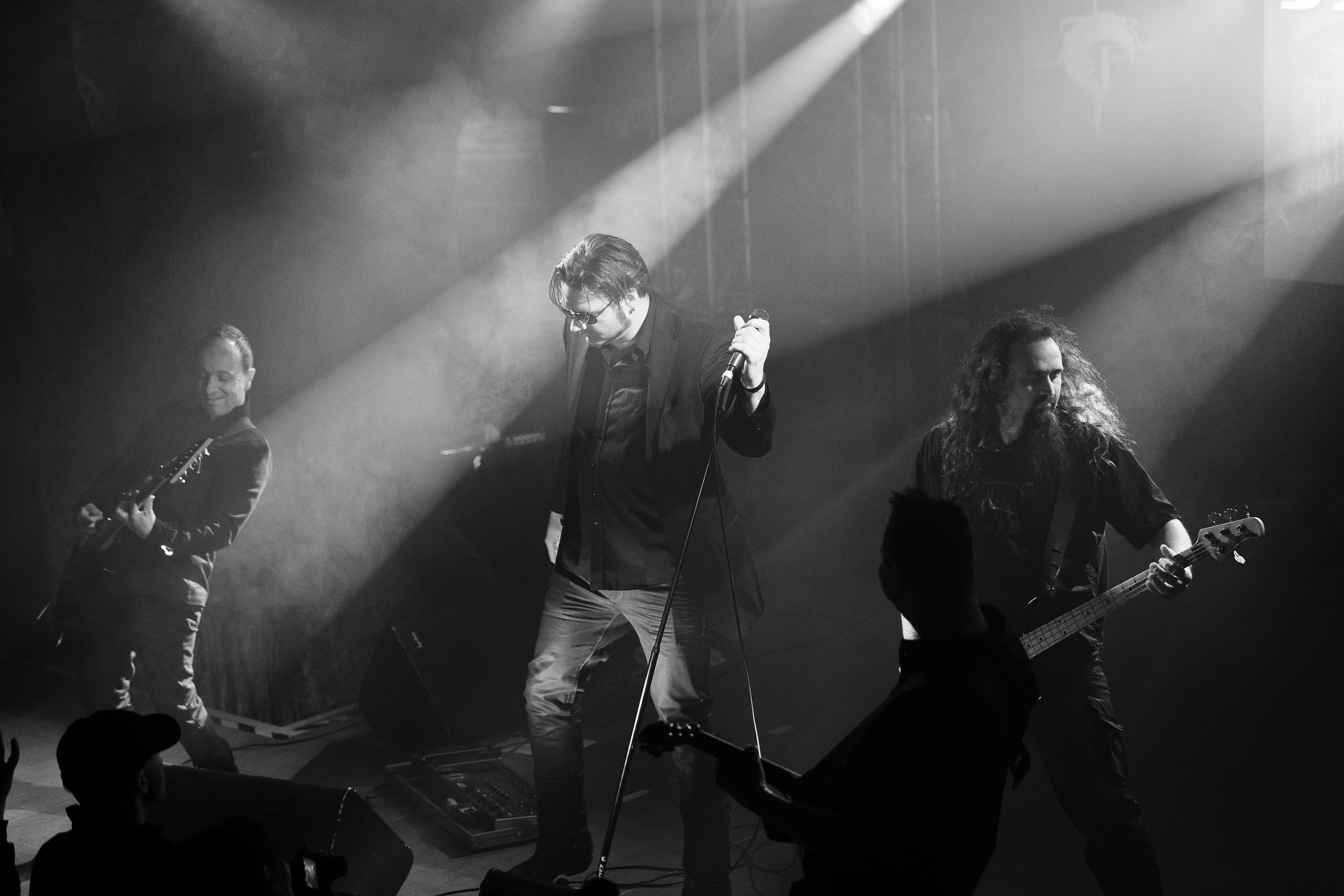 The German gothic rock group Still Patient? at the Kasematten-Festival 2016 in Langenstein/Germany.